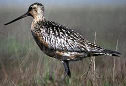 Bar-tailed Godwit from USFWS Title: Bar-tailed Godwit